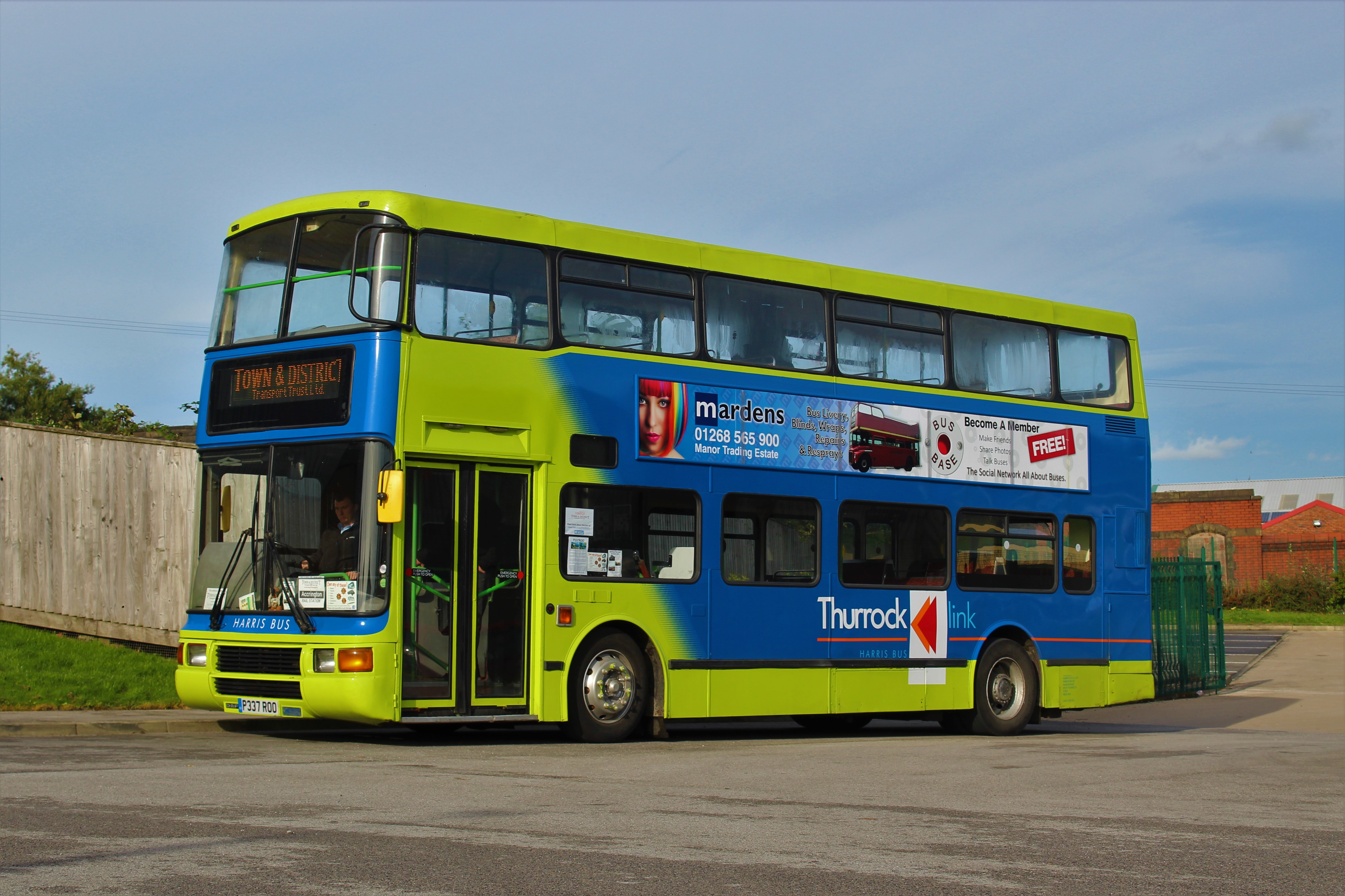 Harris Bus (Thurrock Link livery) preserved DAF DB250/Northern Counties Palatine 2 P337 ROO, preserved by the Town & District Transport Trust and seen attending their first annual open day and Great Harwood Rally on 16 September 2018.